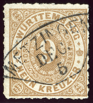 Kingdom of Wurtemberg 9 kreuzer issue 1873 stamp, fan shaped cancelled at METZINGEN.